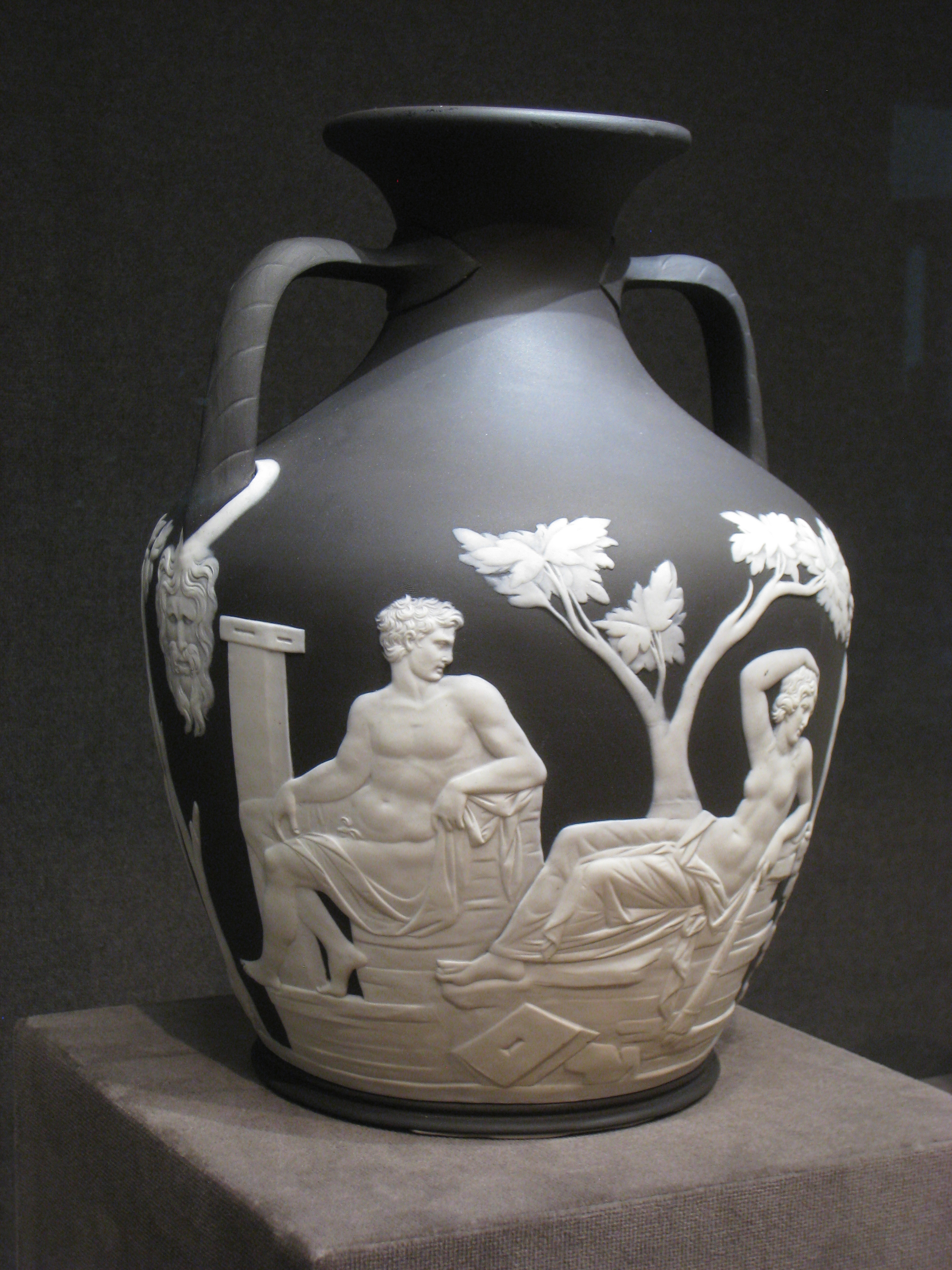 Portland Vase by Josiah Wedgwood & Sons Ltd, circa 1790, in the Cleveland Museum of Art, Cleveland, Ohio, USA. There were no prohibitions against photography in the museum. I took this photograph.